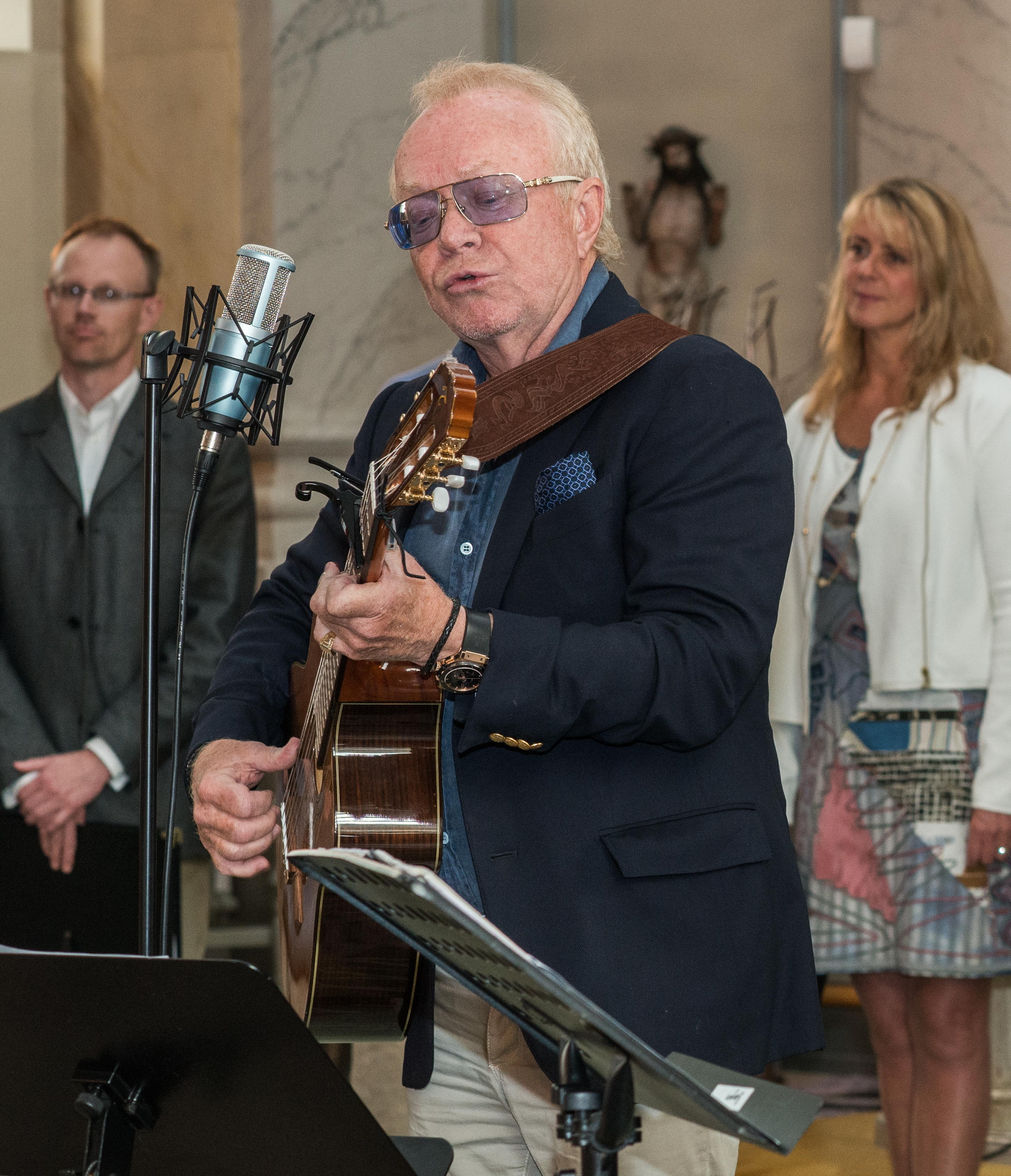 Björn Johansson in Vaxholm June 2014